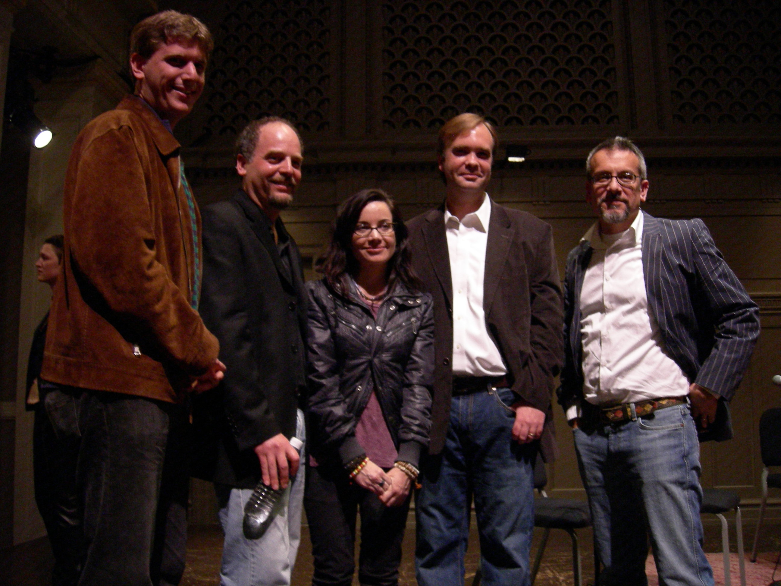 Panelists for "Janeane Garofalo and Friends discuss Politics and the Press: Fair and Balanced or Lazy and Cowed?" Town Hall, Seattle, Washington. Left to right: Matt Stoller, David Goldstein, Janeane Garofalo, Duncan Black (Atrios), David Postman (Seattle Times).